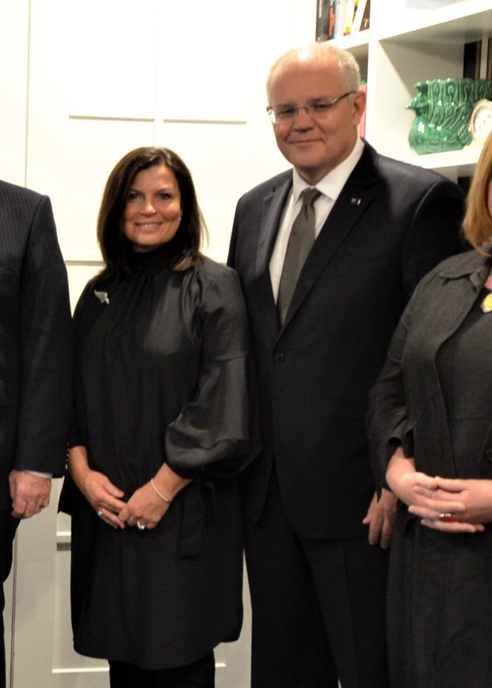 The official Australian delegation to the National Remembrance Ceremony in Christchurch